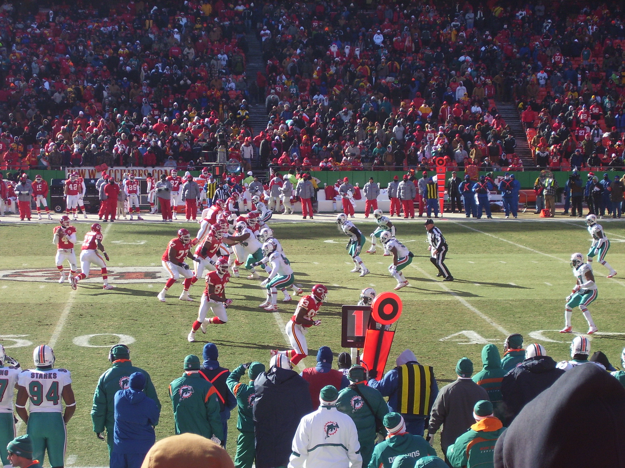 Miami Dolphins at Kansas City Chiefs, 21 December 2008. At Arrowhead Stadium in Kansas City, Missouri.